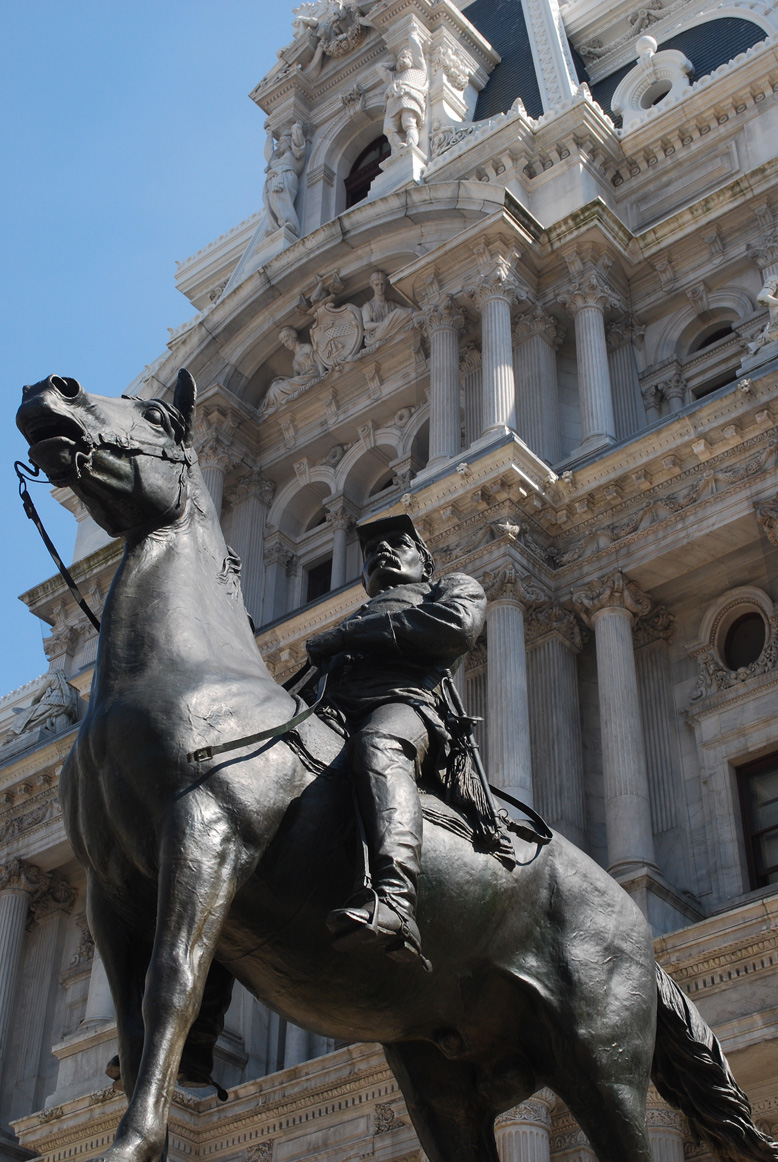 General George B. McClellan by Henry Jackson Ellicott in front of Philadelphia City hall.